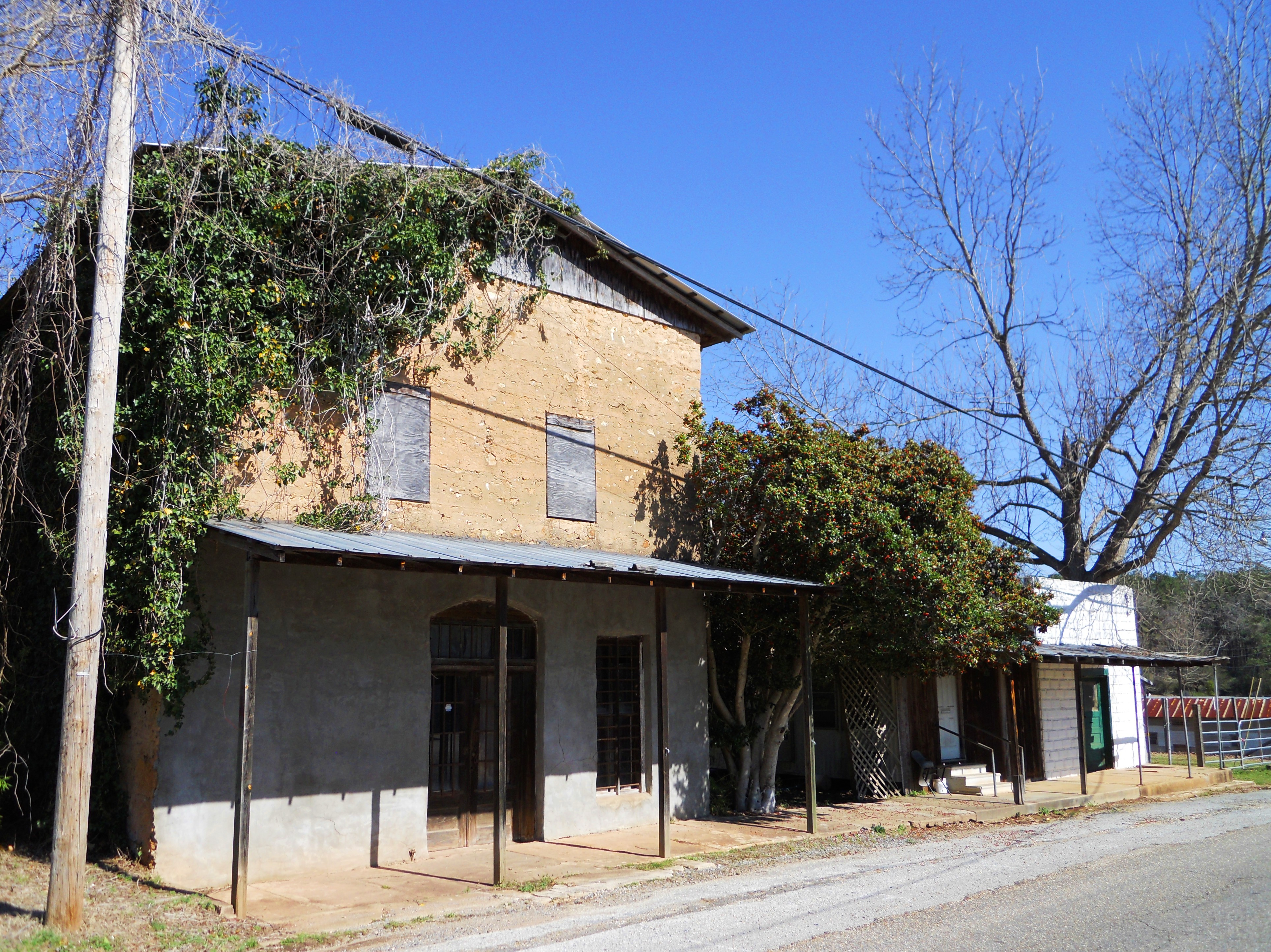 This is a photo of Kellyton, Alabama.